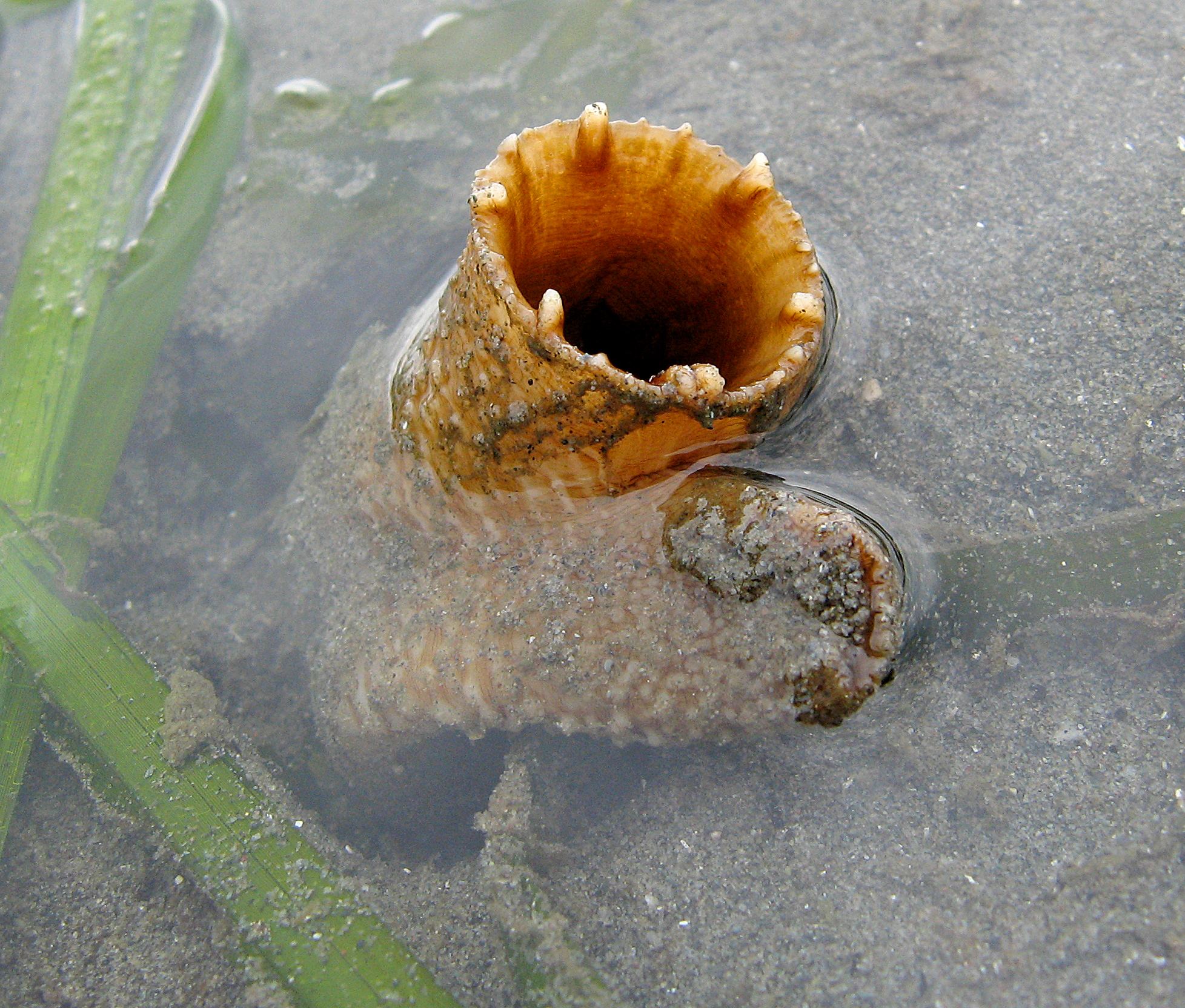 Piddocks (Pholadidae), presumably Rough piddocks (Zirphaea or Zirfaea pilsbryi) – "Saw zillions of these today during the low low tide (-2.3 feet below mean lower low water) in Puget Sound. The siphons are about a half inch to an inch wide. They squirted streams of water several feet into the air now and then, and could close up and retreat into the sand if disturbed."